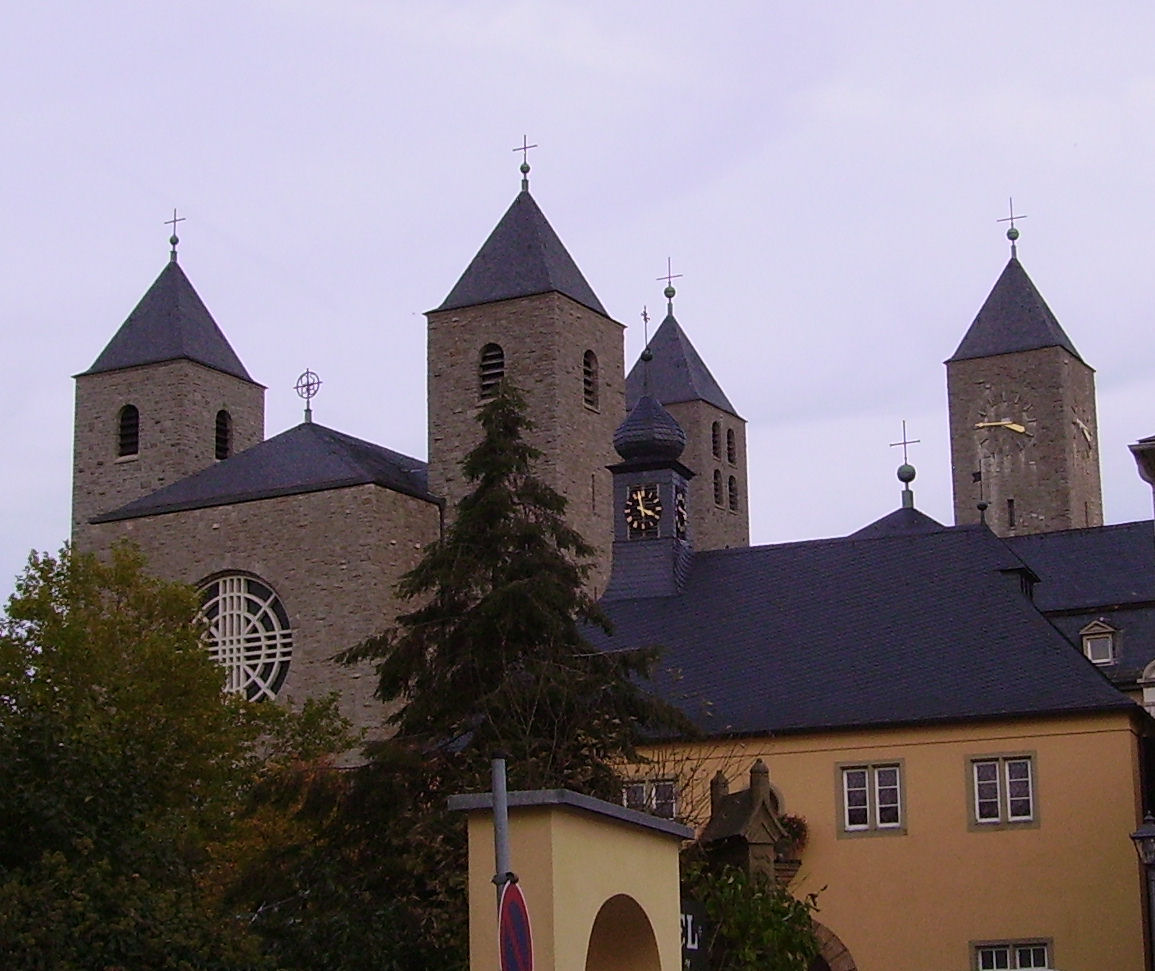 abbey church of Münsterschwarzach, Germany